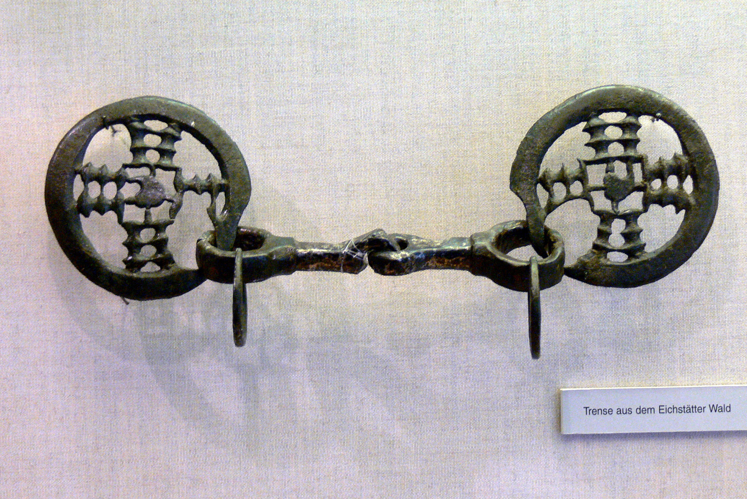 Weißenburg ( Bavaria ). Roman Museum: Horse bit.